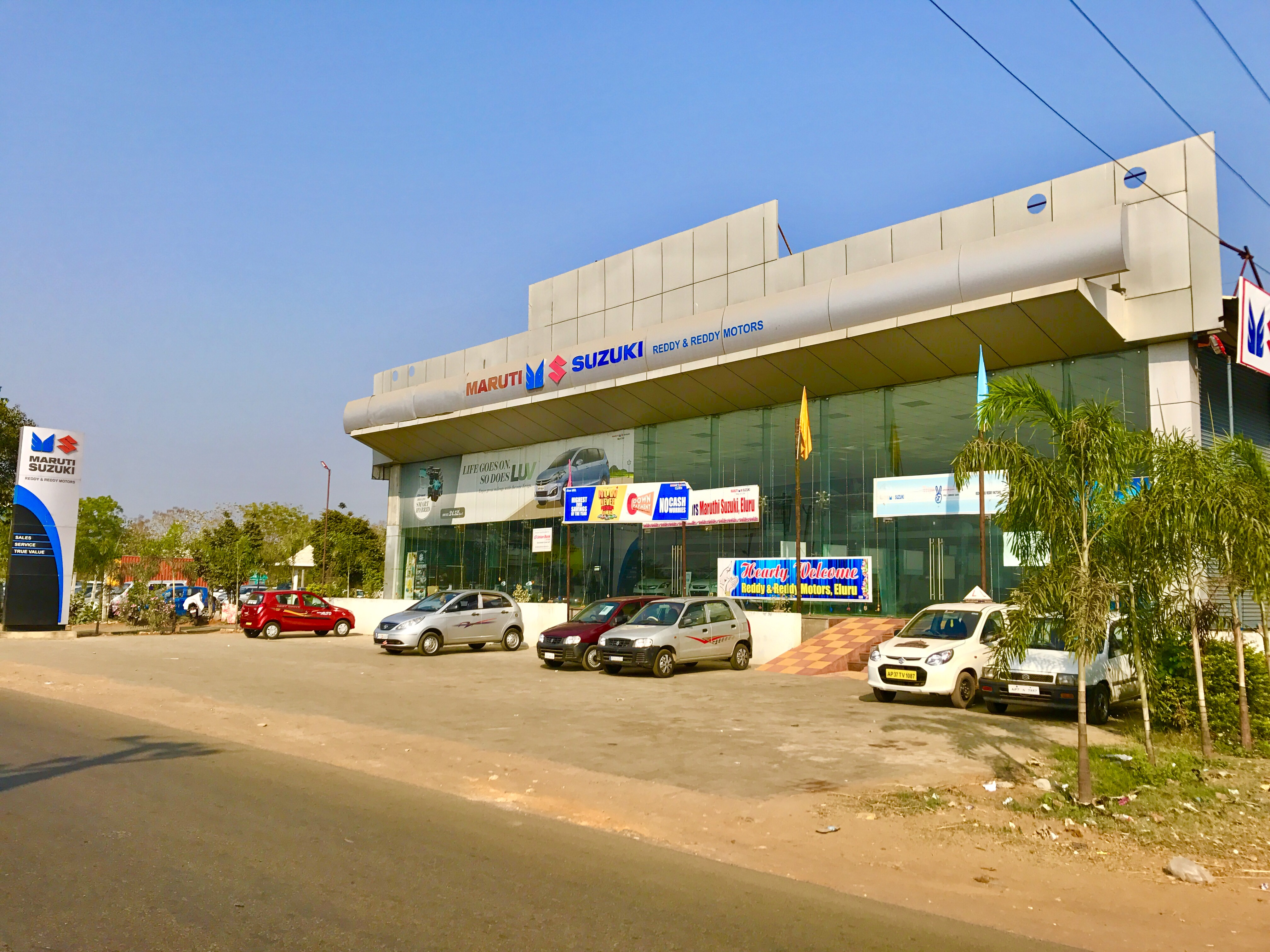 Maruthi Suzuki showroom near Eluru